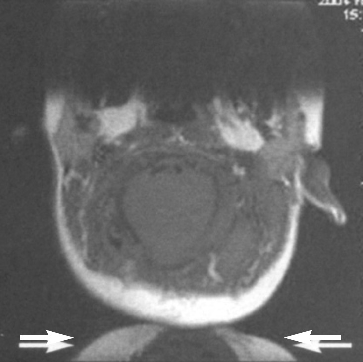 Head MRI with wrap around artifacts. For context, see: MRI artifact